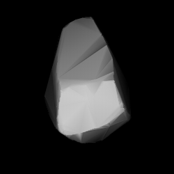 3D convex shape model of 1335 Demoulina, computed using light curve inversion techniques. J. Hanuš, J. Ďurech, M. Brož, B. D. Warner (June 2011). "A study of asteroid pole-latitude distribution based on an extended set of shape models derived by the lightcurve inversion method". Astronomy and Astrophysics 530: A134. ISSN 0004-6361. arXiv